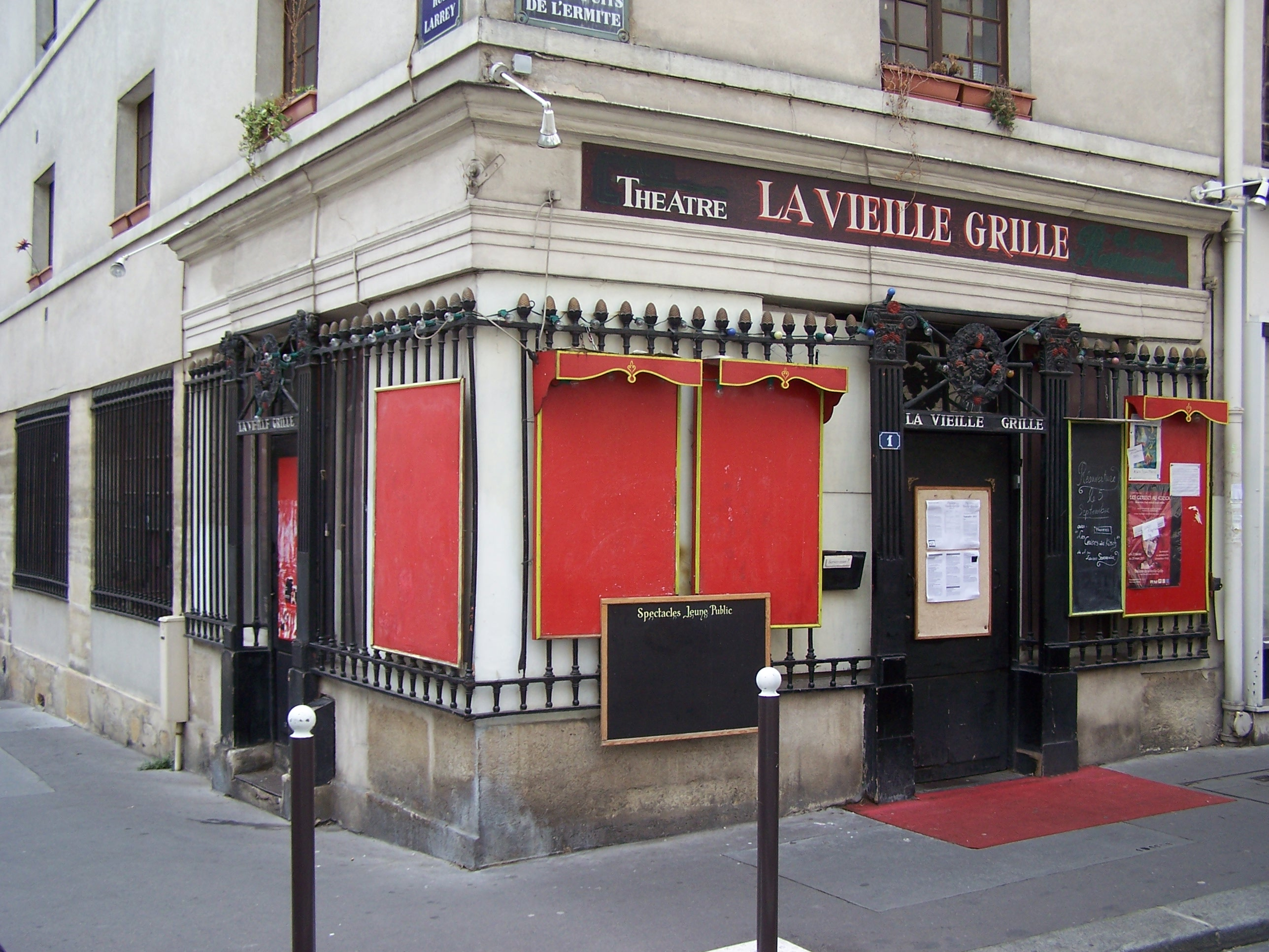 Paris - Théâtre de la Vieille-Grille, general view